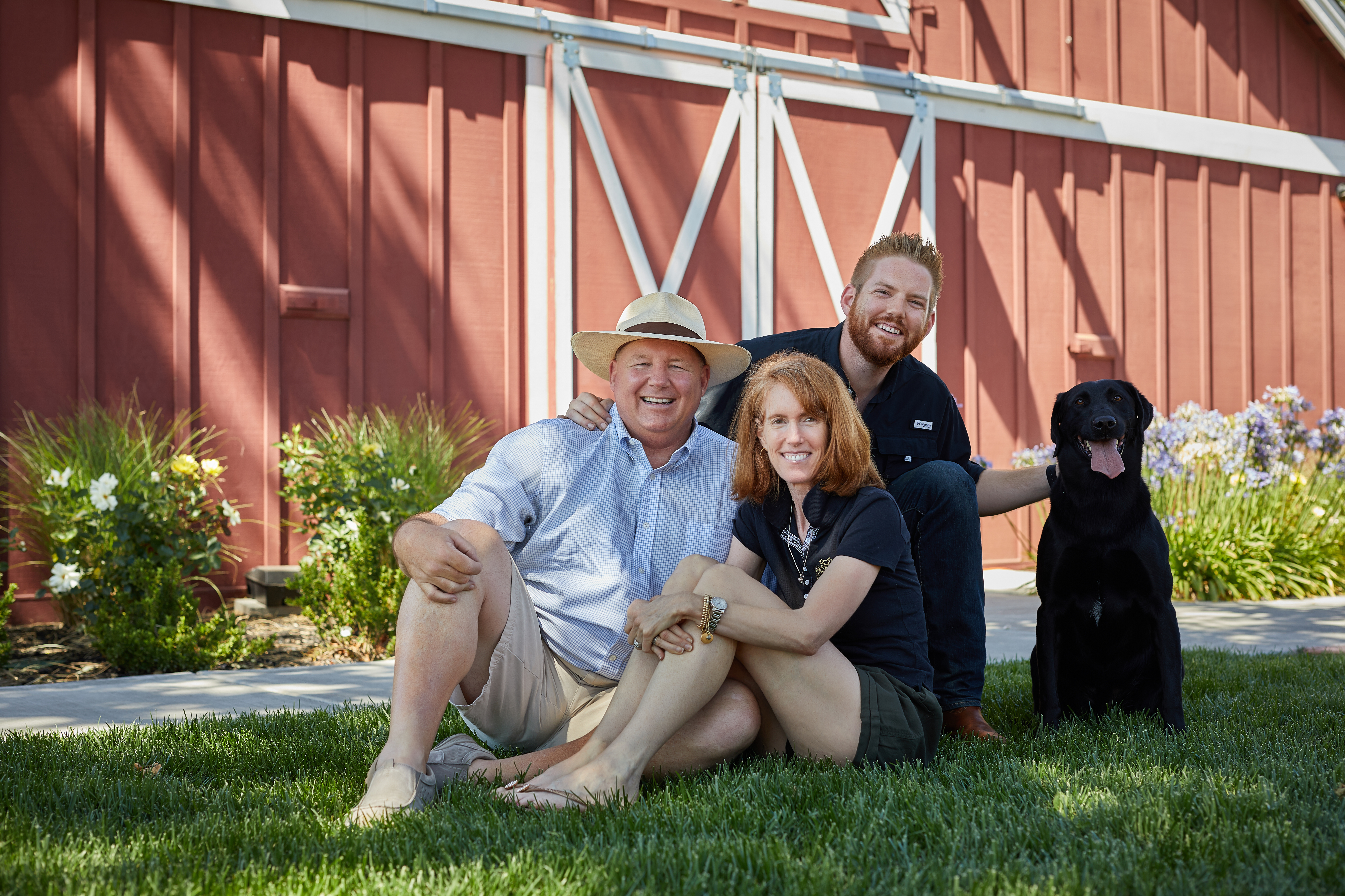 Thomas, Brenda and Michael Baldacci with Beau, the Cab Lab.